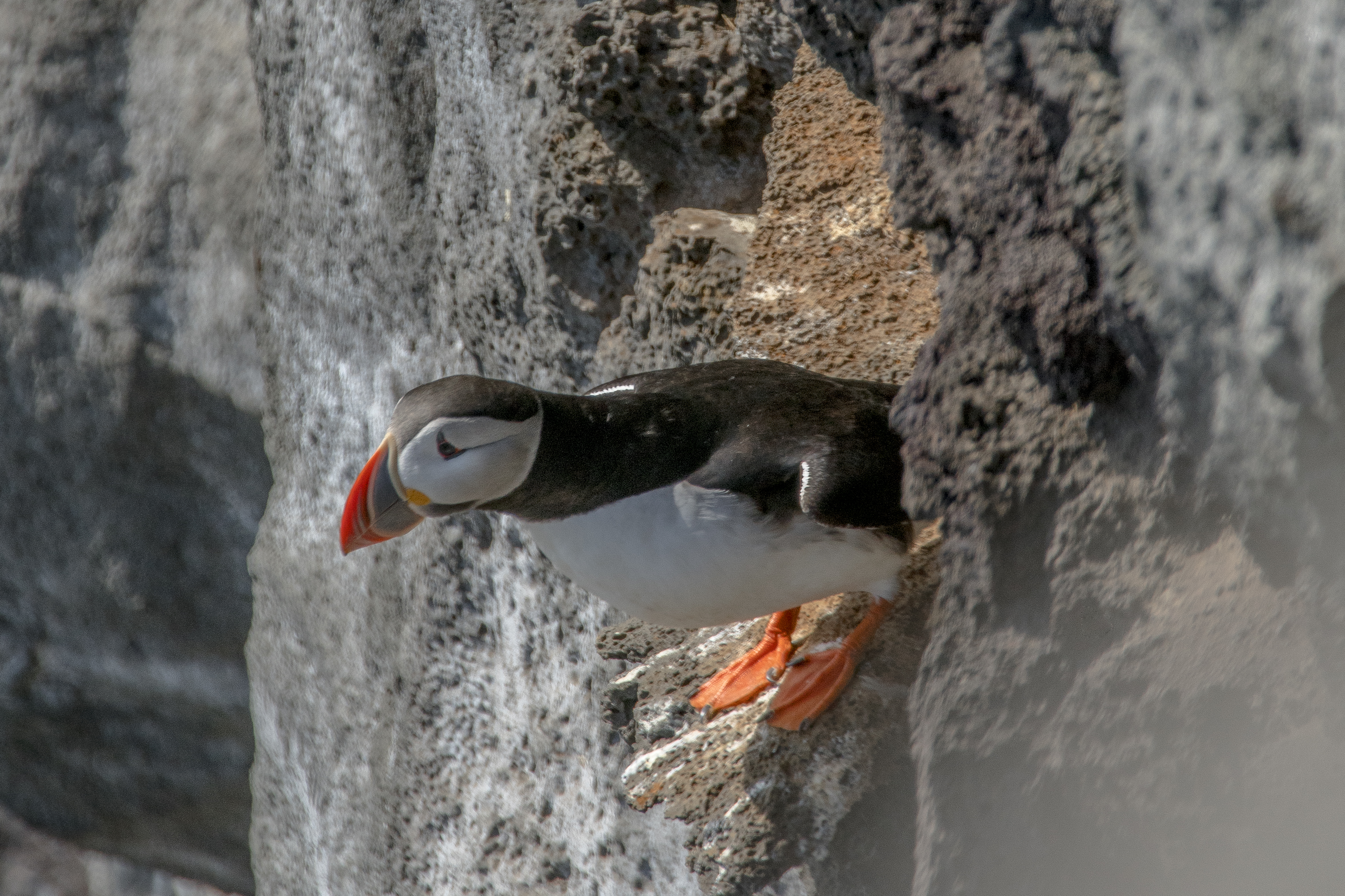 The Atlantic puffin (Fratercula arctica), Krýsuvíkurbjarg (Iceland)